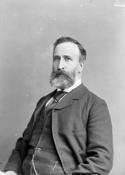 Hon. James Colebrooke Patterson, M.P. (Huron West) (Minister of Militia &n Defence) 1839 - Feb. 17, 1929